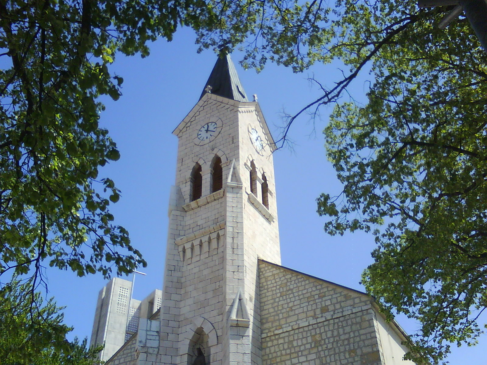 Virgin Mary Church in PosušjeHrvatski: Crkva Blažene djevice Marije u Posušju